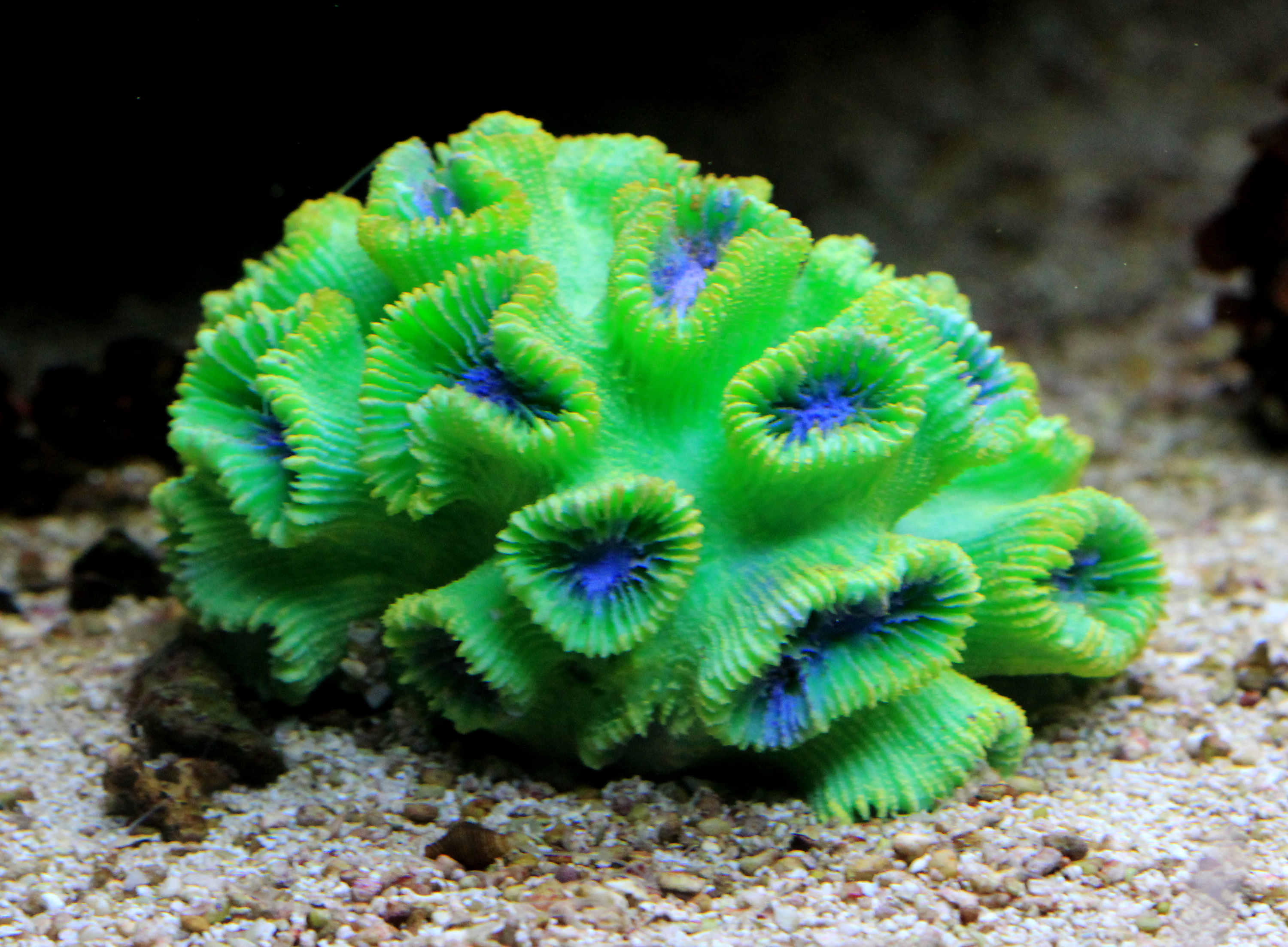 Sea coral Trachyphyllia, (Trachyphylliidae) in Prague sea aquarium “Sea world”, Czech Republic Česky: Mořský korál houbovník, Trachyphyllia v pražském mořském akváriu Mořský svět v Holešovicích